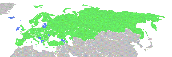 Map showing the UEFA members teams from which have reached the group stage of the UEFA Champions League tournament. The map shows Serbia and Montenegro as one entity, as they were when FK Partizan reached this stage in 2003-04.